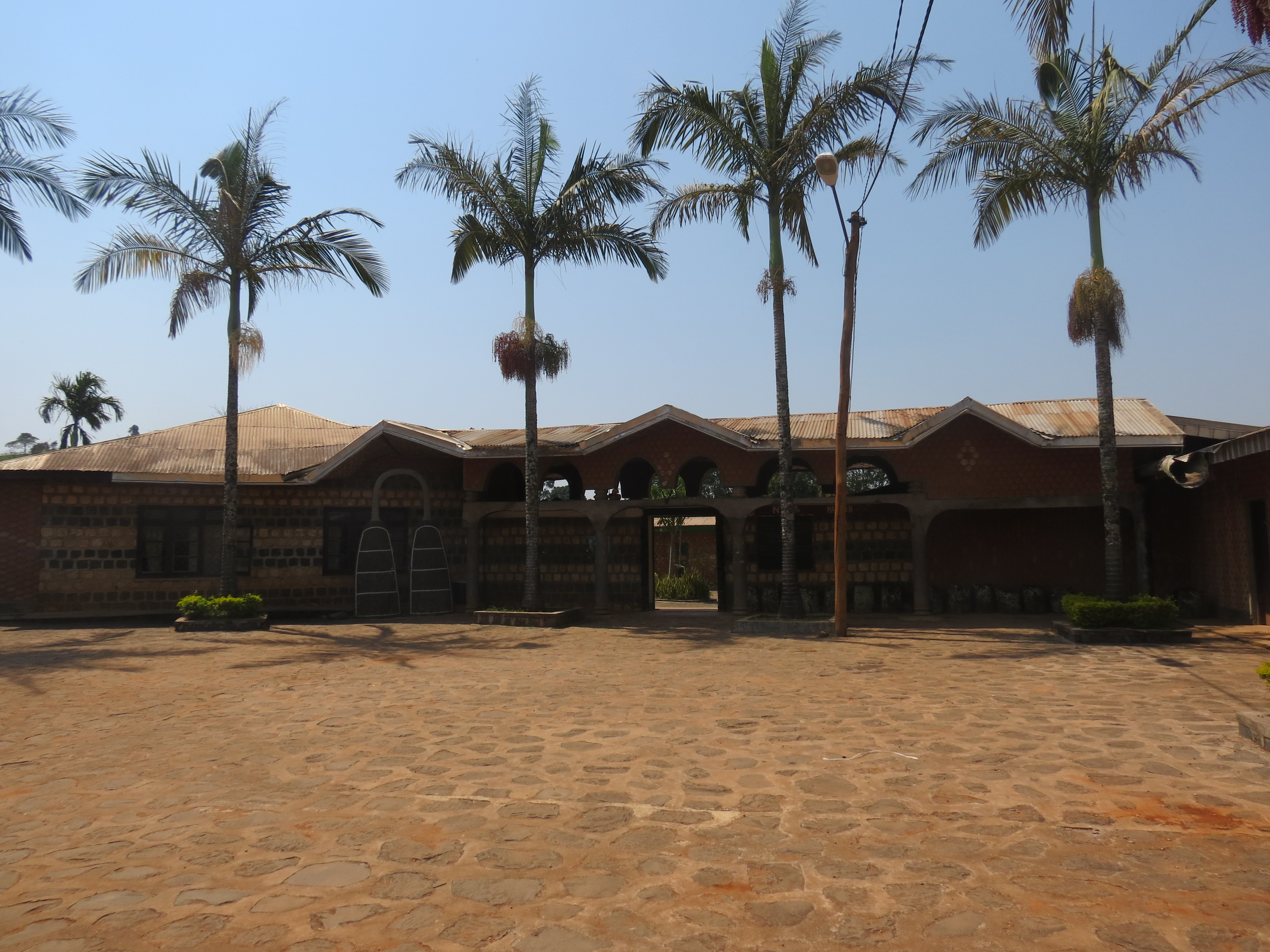 Inside Mankon Palace (Cameroon)